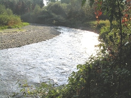 the river Pitten in Erlach